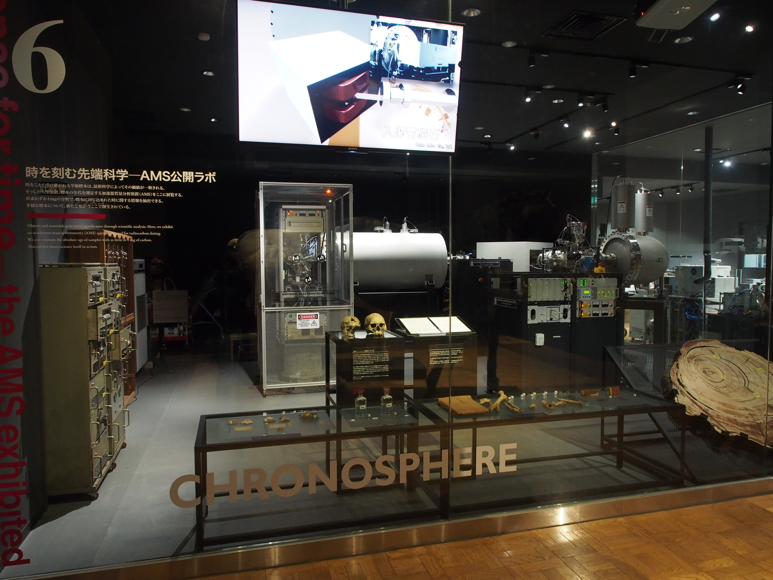 Chronosphere, the Accelerator Mass Spectroscopy (AMS) facility of the Laboratory of Radiocarbon Dating of the University Museum, the University of Tokyo, in Hongo Campus in Bunkyō, Tokyo, Japan.